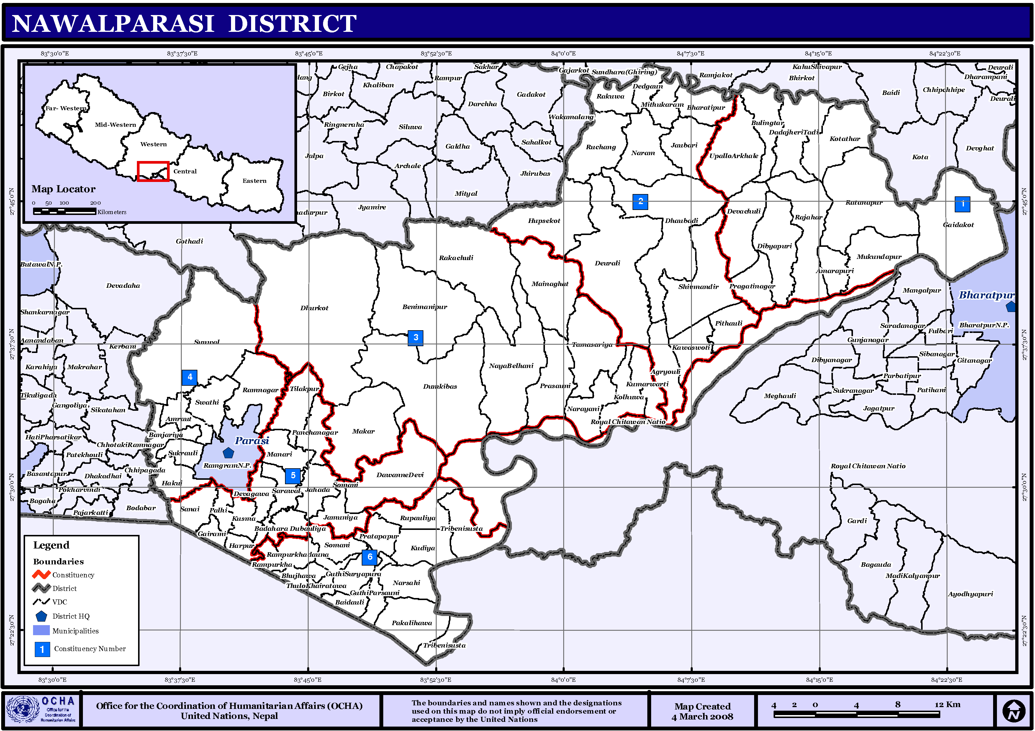 Map displaying Village Development Committees in Nawalparasi District, Nepal